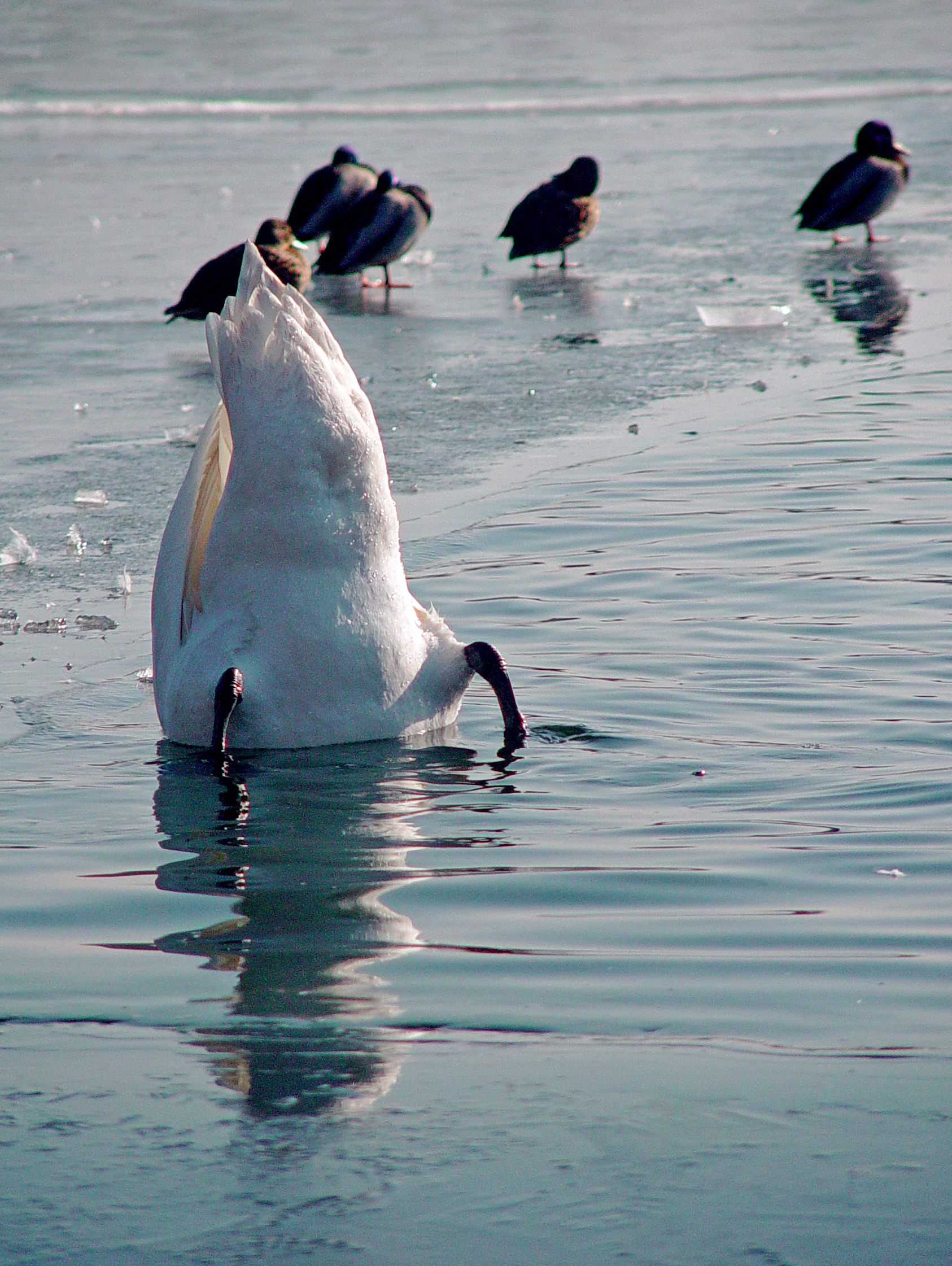 A Mute Swan dabbling for food in ice-covered pool, Hannover